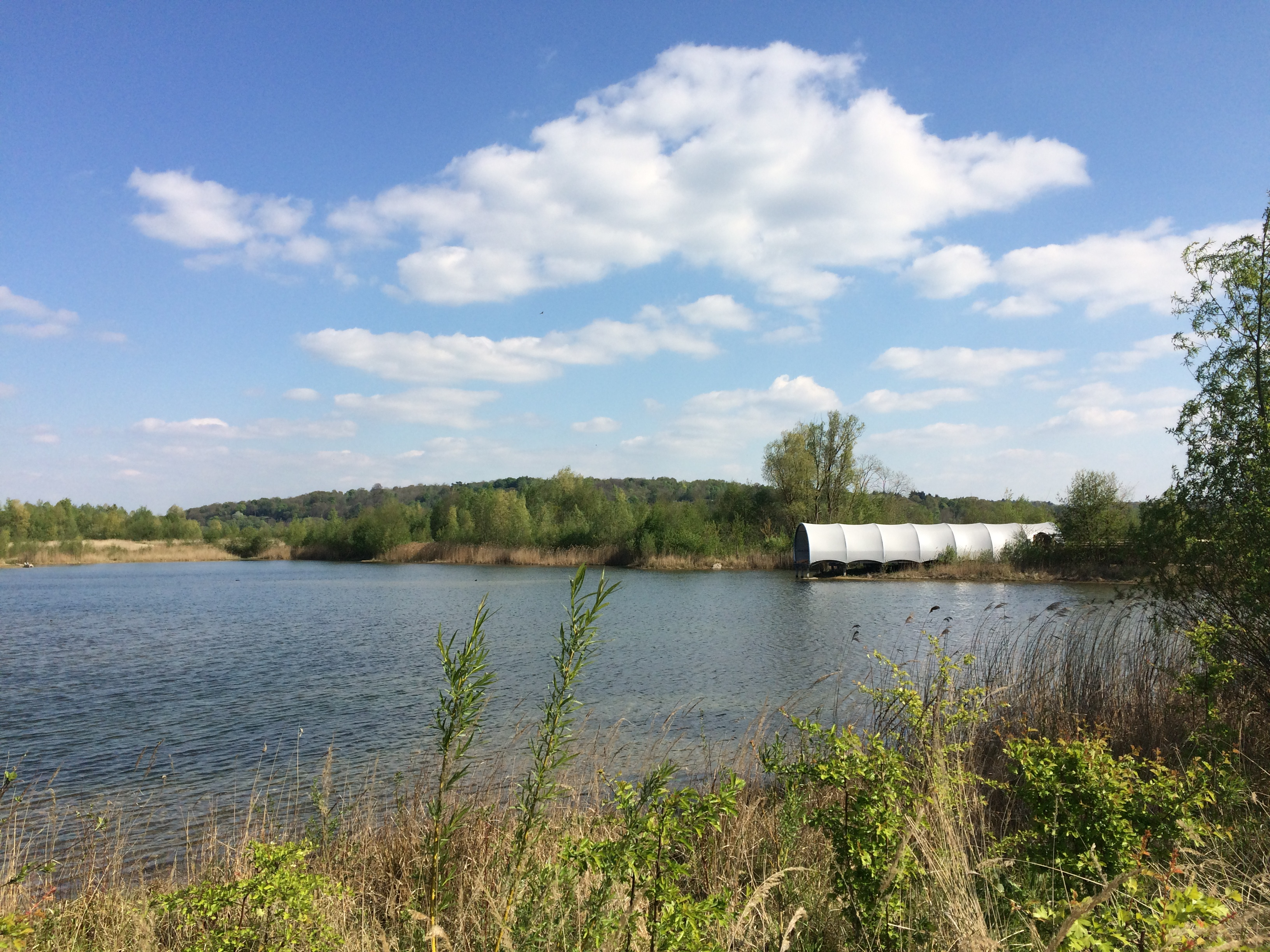 Observatoire du Butor, l'un des 3 observatoires de la réserve avec les observatoires des 10 Quartiers et du Grand Morillon